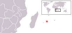 Range map of the Dodo (Raphus cucullatus)